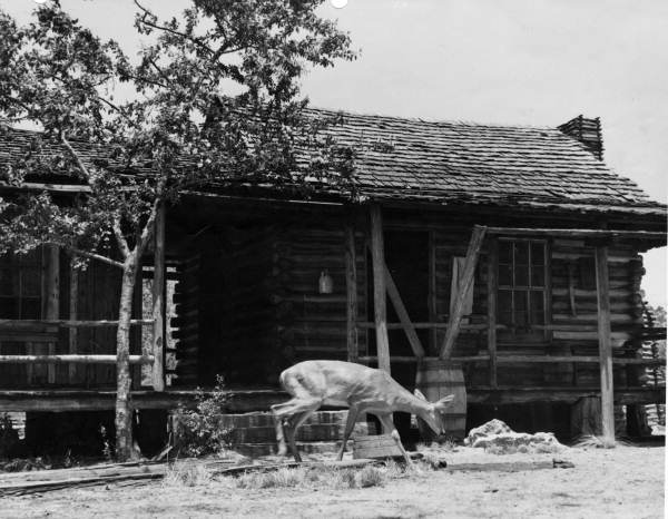 Local call number: pr25583 Title: [Deer near Forrester Place farm] Corporate Author: Metro-Goldwyn-Mayer Date: 1940. Physical descrip: 1 photoprint: b&w; 8 x 10 in. Series Title: (Print Collection.) General note: Pre-production and location photographs of MGM's The Yearling. Repository: 500 S. Bronough St., Tallahassee, FL 32399-0250 USA. Contact: 850.245.6700. Persistent URL